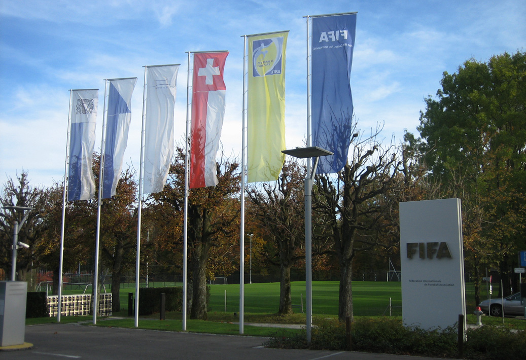 Entrance to the FIFA Headquarter